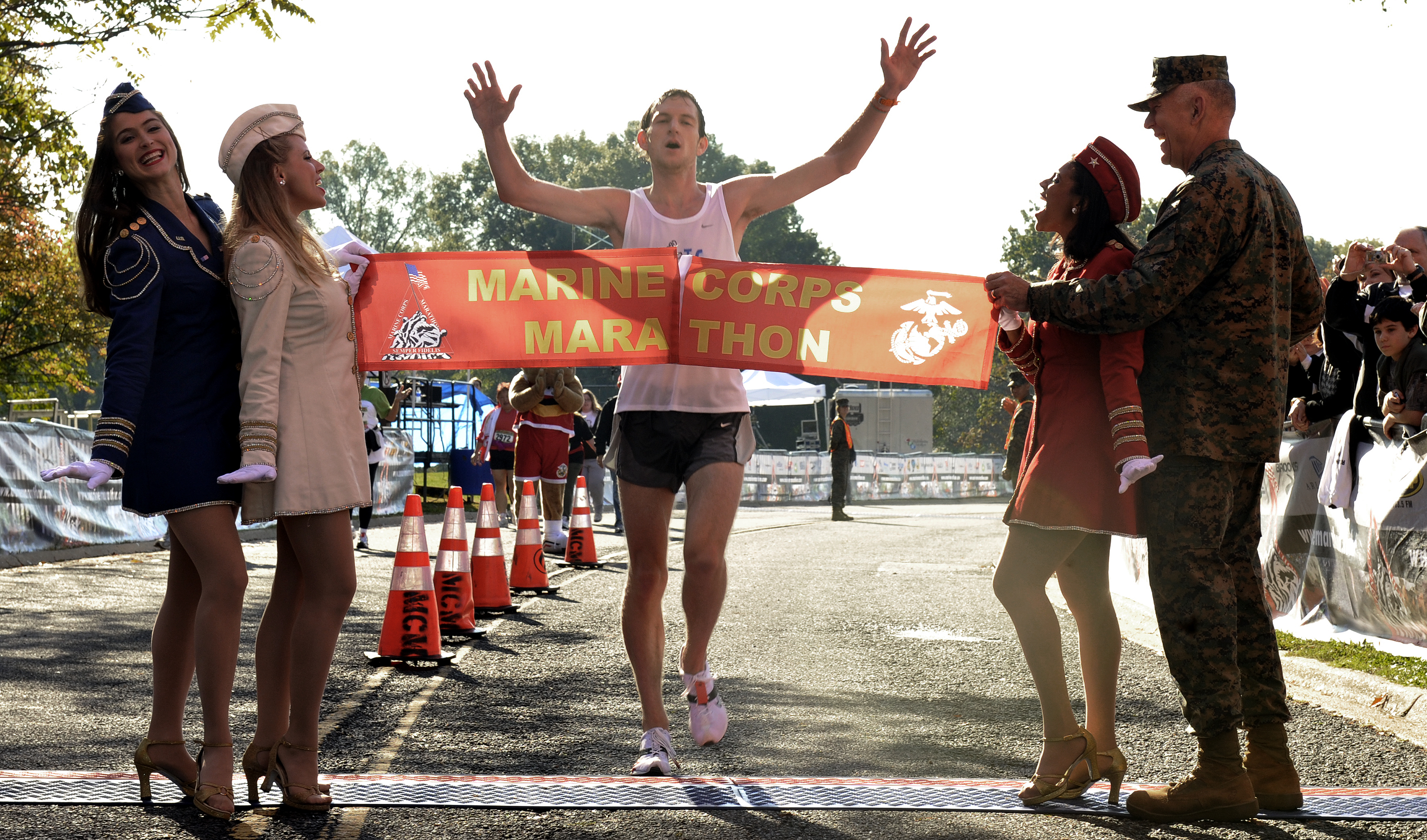 U.S. Marine Corps Marathon 2008 - male winner: Arlington runner and first-time marathoner Andrew Dumm completes his exhausting 26.2-mile journey at the Marine Corps Marathon Sunday when he broke through a banner held by Commandant of the Marine Corps Gen. James T. Conway and the USO American Bells. Dumm did not expect the win, and he used pure crowd motivation to push himself.